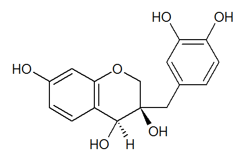 Chemical structure of sappanol